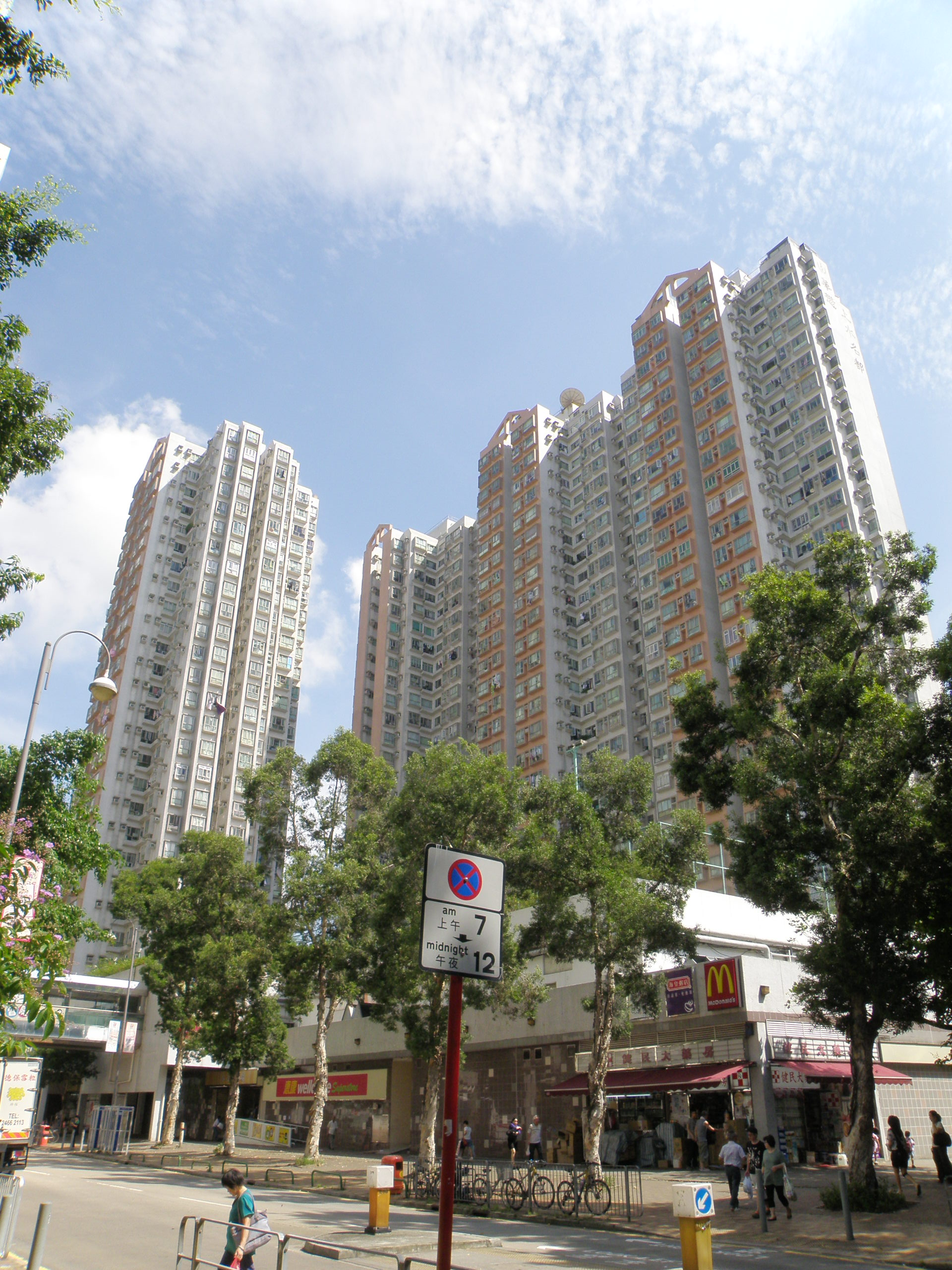 Sheungshui Town Center in Sheung Shui, Hong Kong. 上水名都